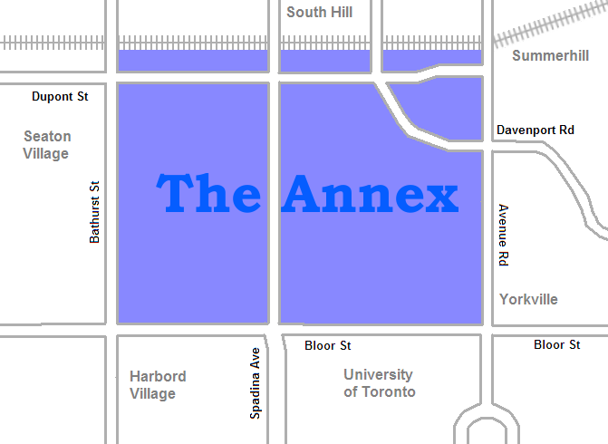 Map of the Annex